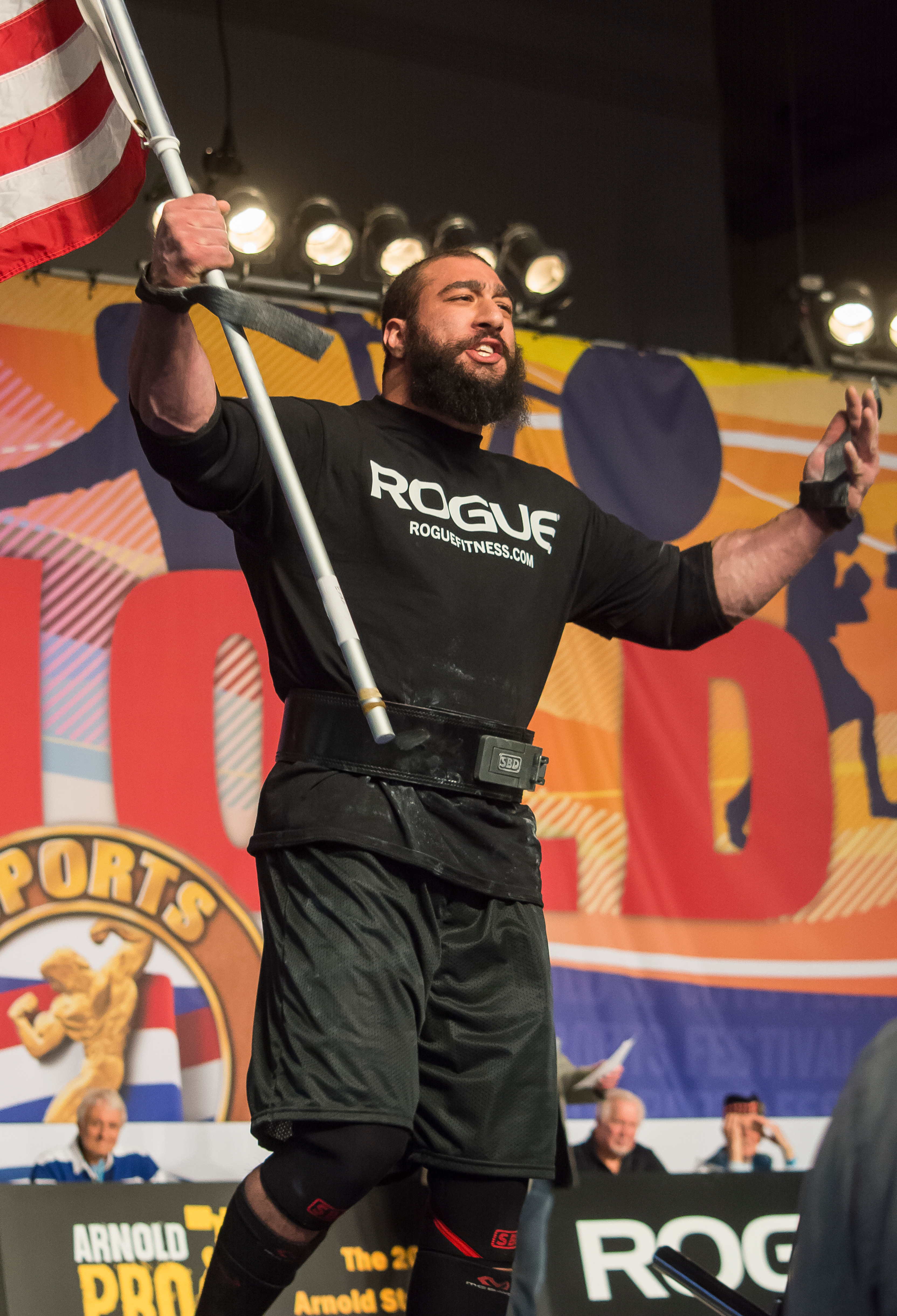 Aronald Classic Coulumbus, Ohio USA 2017